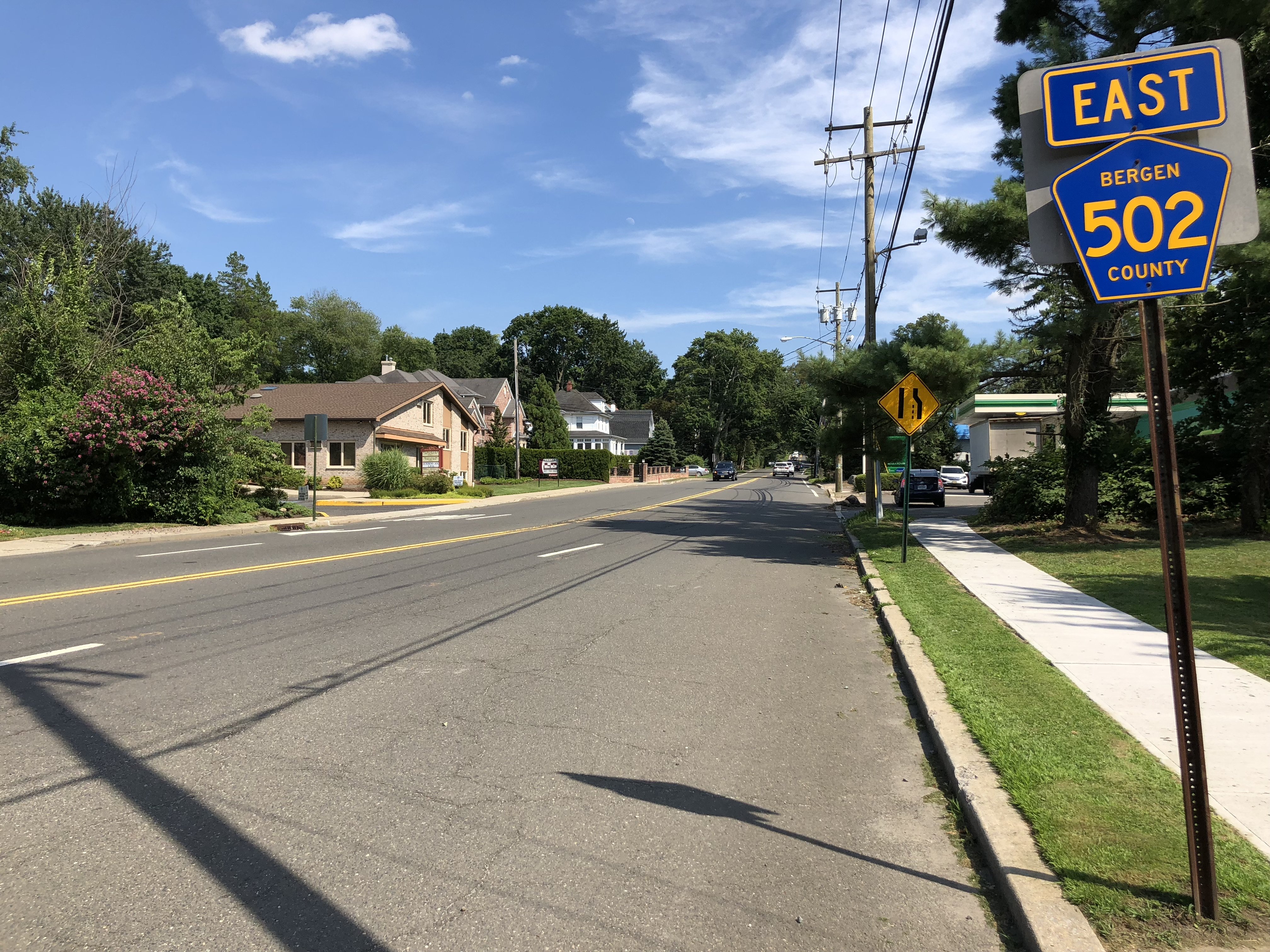 View east along Bergen County Route 502 (Closter Dock Road) at Bergen County Route 501 (Piermont Road) in Closter, Bergen County, New Jersey